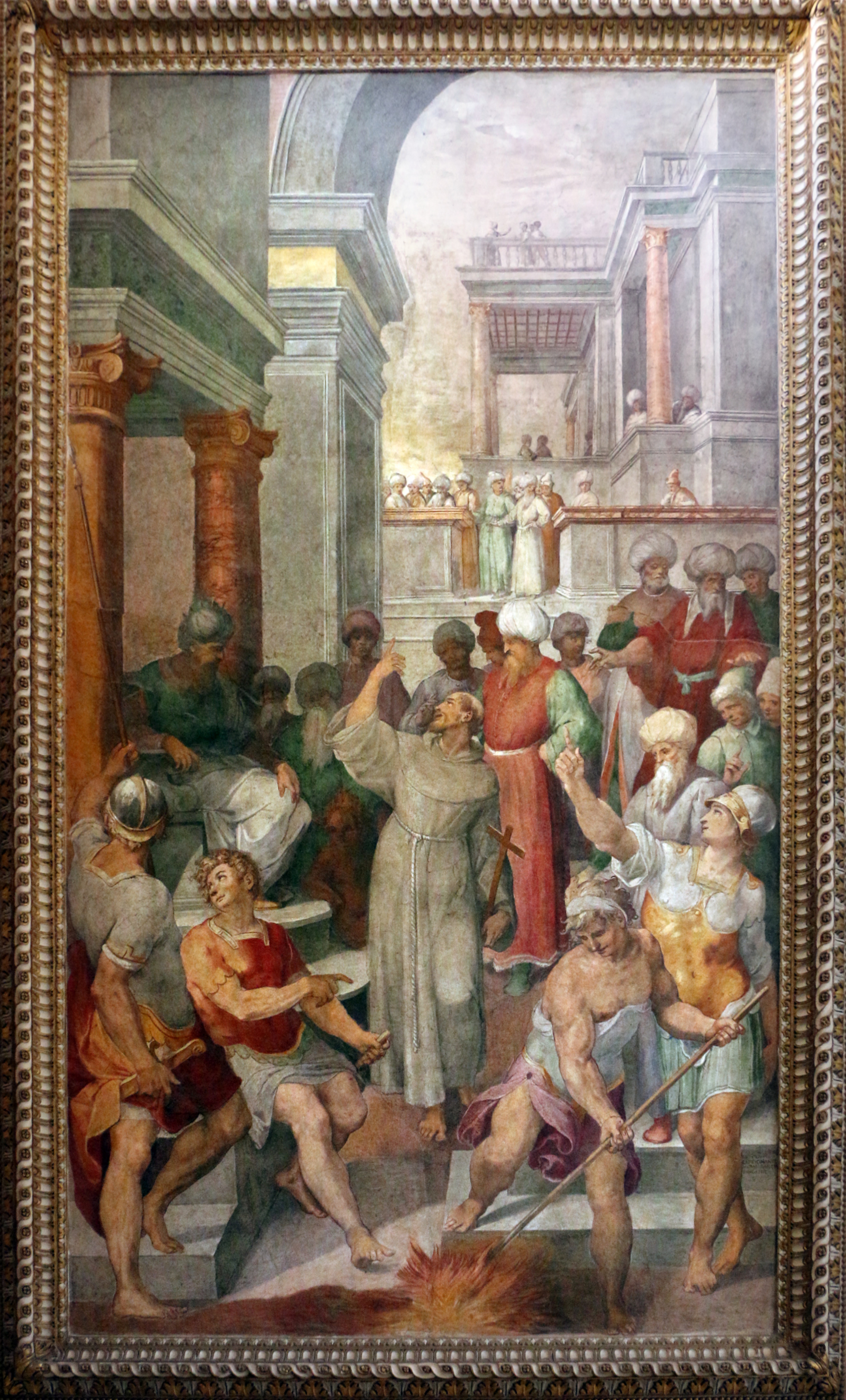 San Giovanni dei Fiorentini (Rome) - Interior